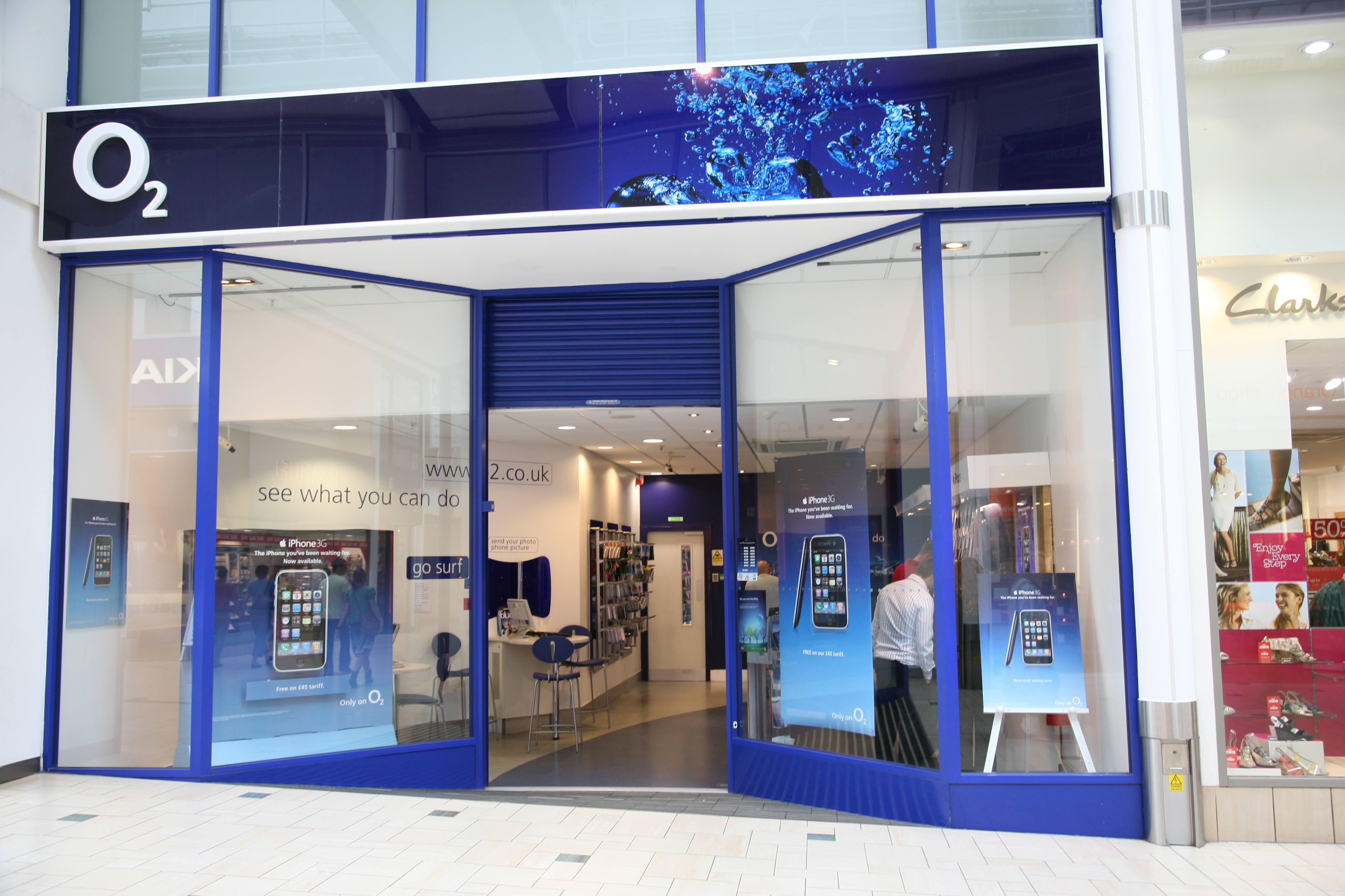 O2 (mobile phones, broadband, etc.) store in Banbury, England